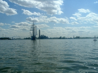 Bay of Green Bay looking south into the mouth of the Fox River in Green Bay, WI. Photo taken by me during "Tall Ships" Festival in Green Bay. Ship is called "Windy II" from the port of Chicago, IL.